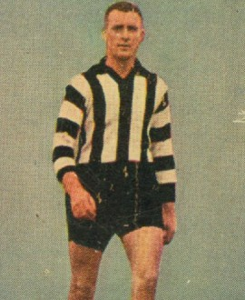 Photograph of Bervin Woods in 1935